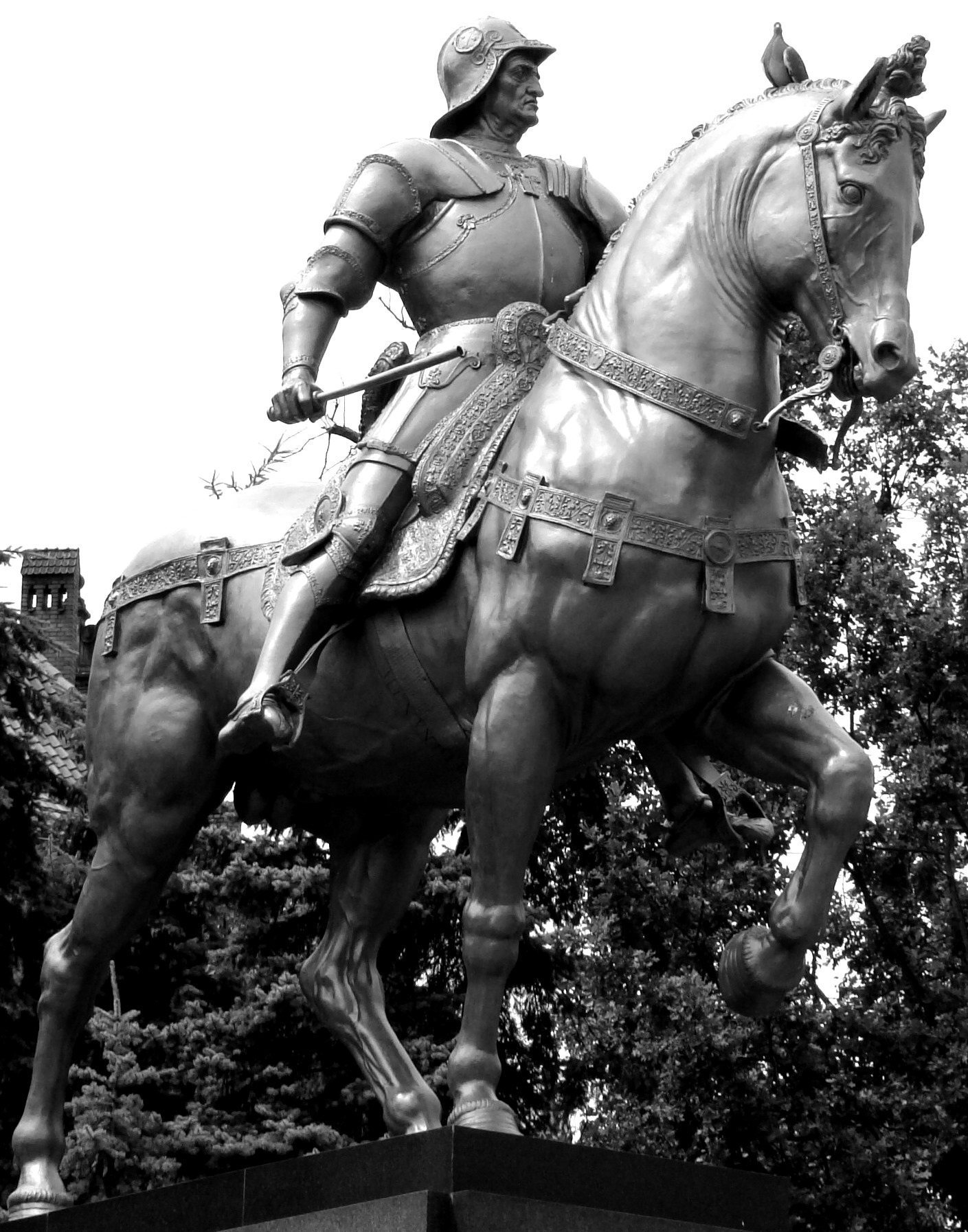 Bartolomeo Colleoni Monument (Lotnikow Square), Szczecin, Poland